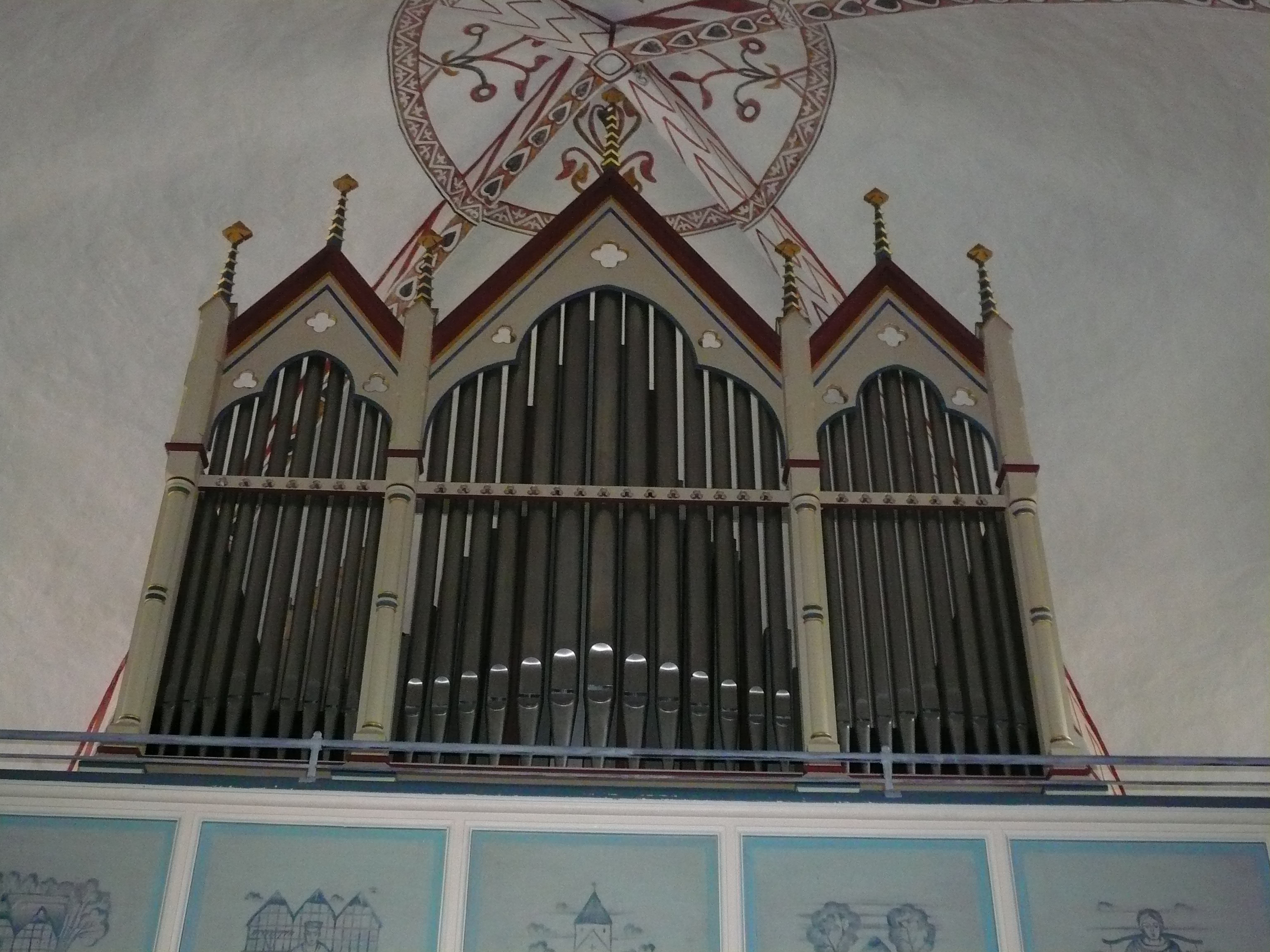 The pipe organ of the church of St. Jürgen in Lower Saxony